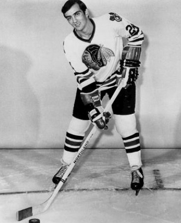 Photo of J. P. Bordeleau as a member of the Chicago Blackhawks.